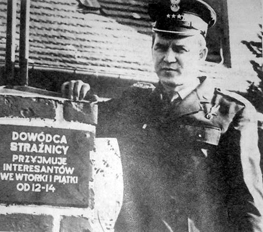 Border Protection Forces in Gierałcice, Poland.